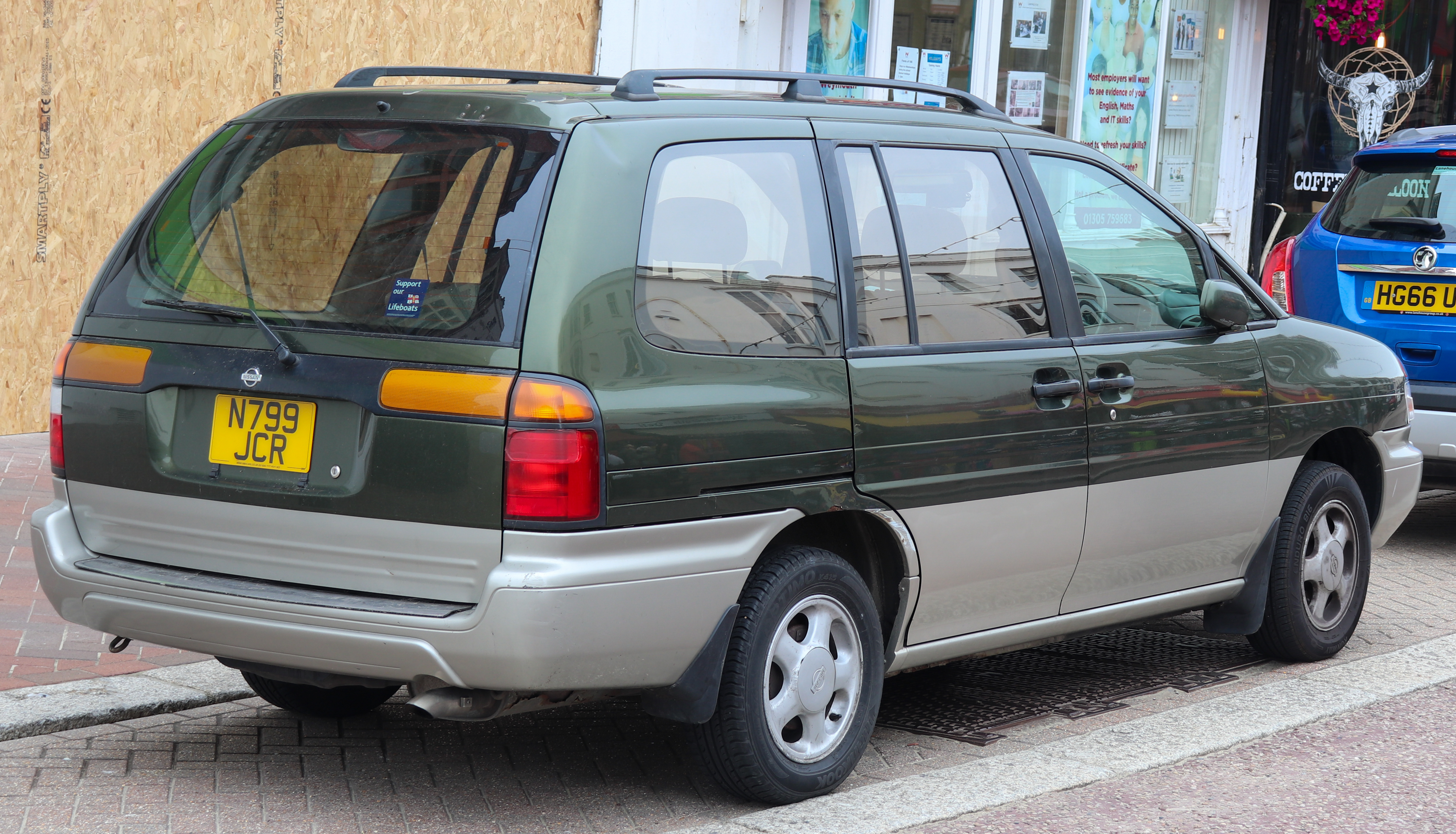 1996 Nissan Prairie Joy SLX 2.0 Rear Taken in Weymouth